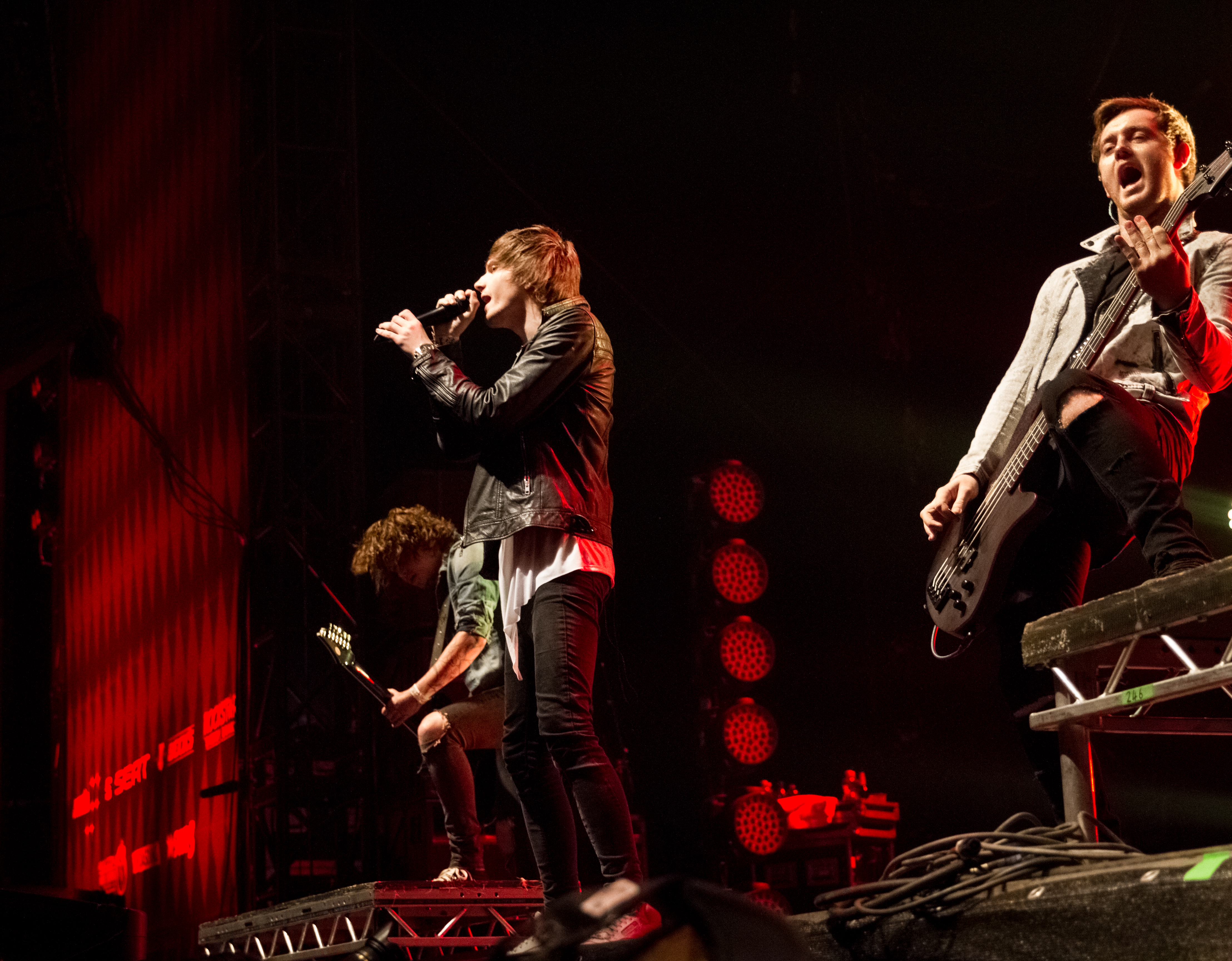 Asking Alexandria - Rock am Ring 2015